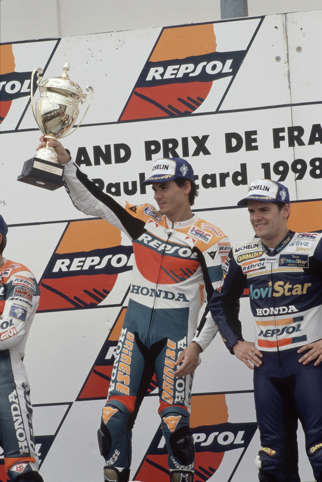 Mick Doohan, Àlex Crivillé (who is lifting his trophy) and Carlos Checa on the podium after finishing in second, first and third place at the 1998 French Grand Prix.